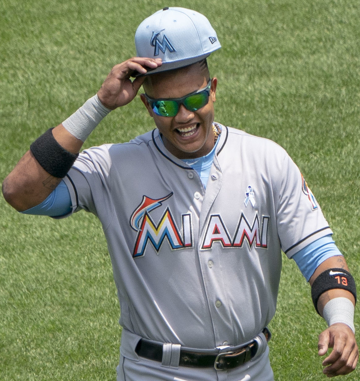 Marlins at Orioles 6/17/18